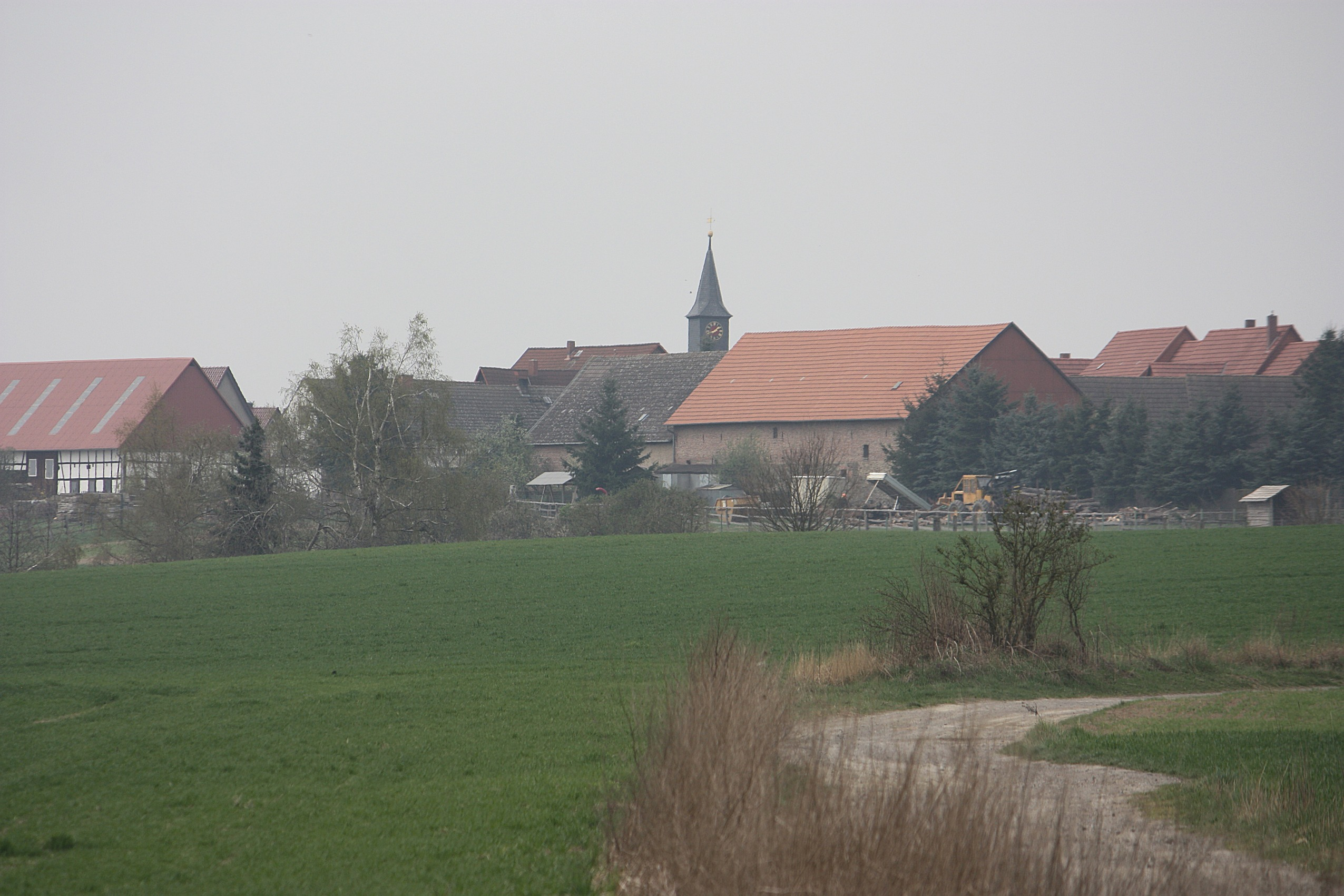 Braunschwende (Mansfeld), view to the village